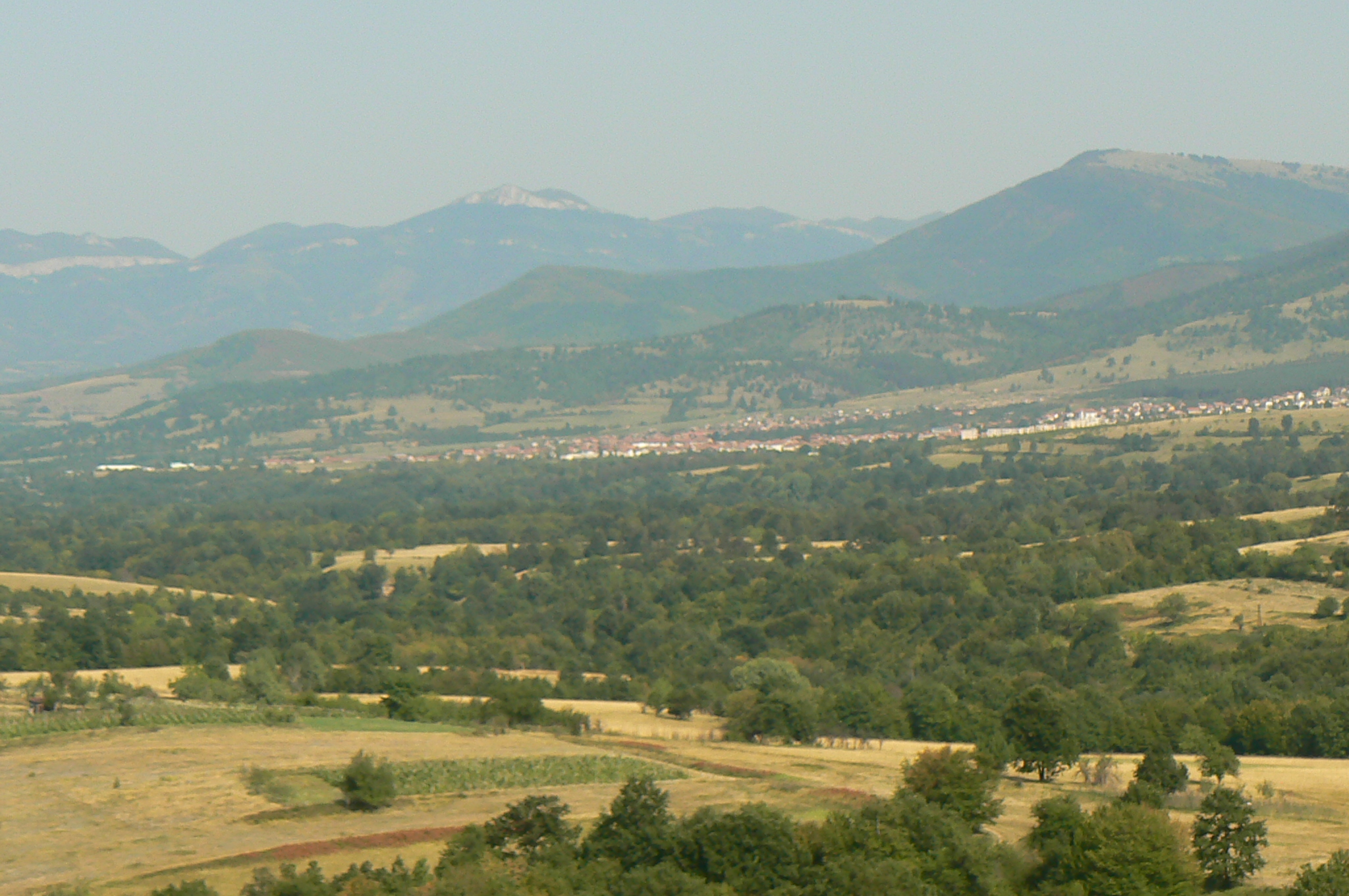 Varshets, Bulgaria, as seen from the road to Berkovitsa